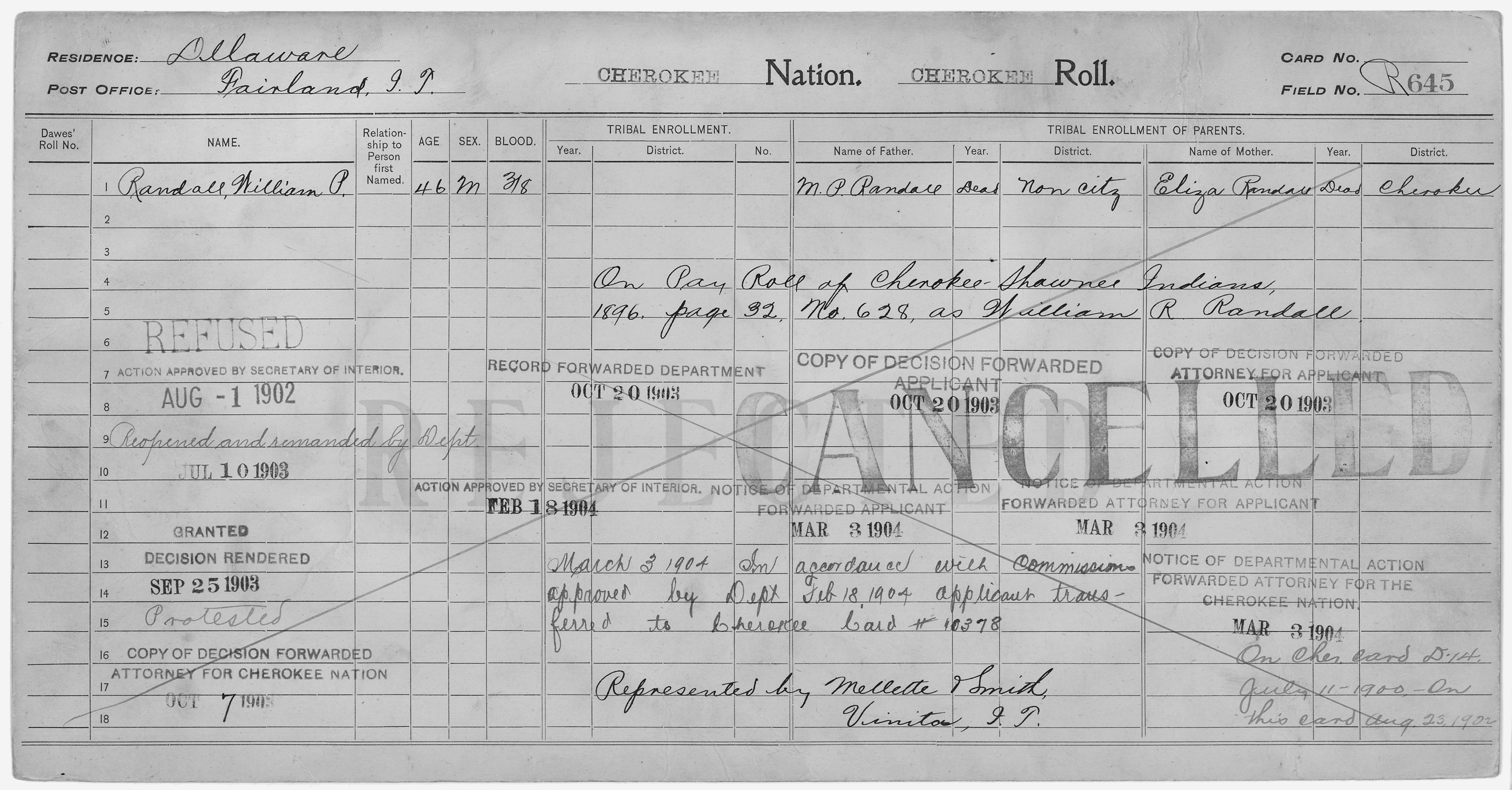 Scope and content: Name: Eliza Randall Type: Parent Sex: Female Name: M P Randall Type: Parent Sex: Male Name: William P Randall Type: Rejected Age: 46 Sex: Male Degree Indian Blood: 3/8 City of Residence: Fairland